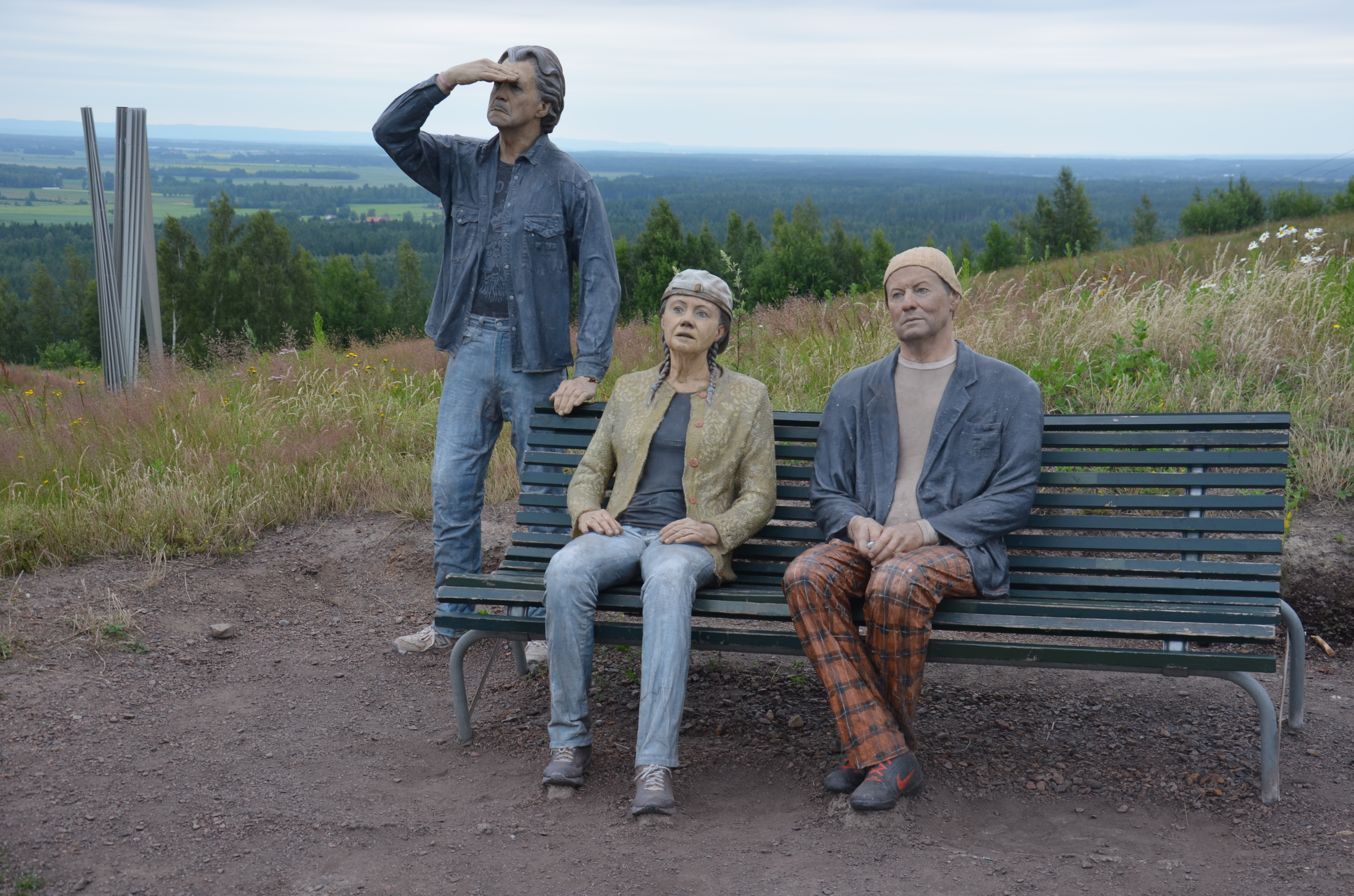 Var finns konstverket? av Marc Broos, 2010, Konst på Hög